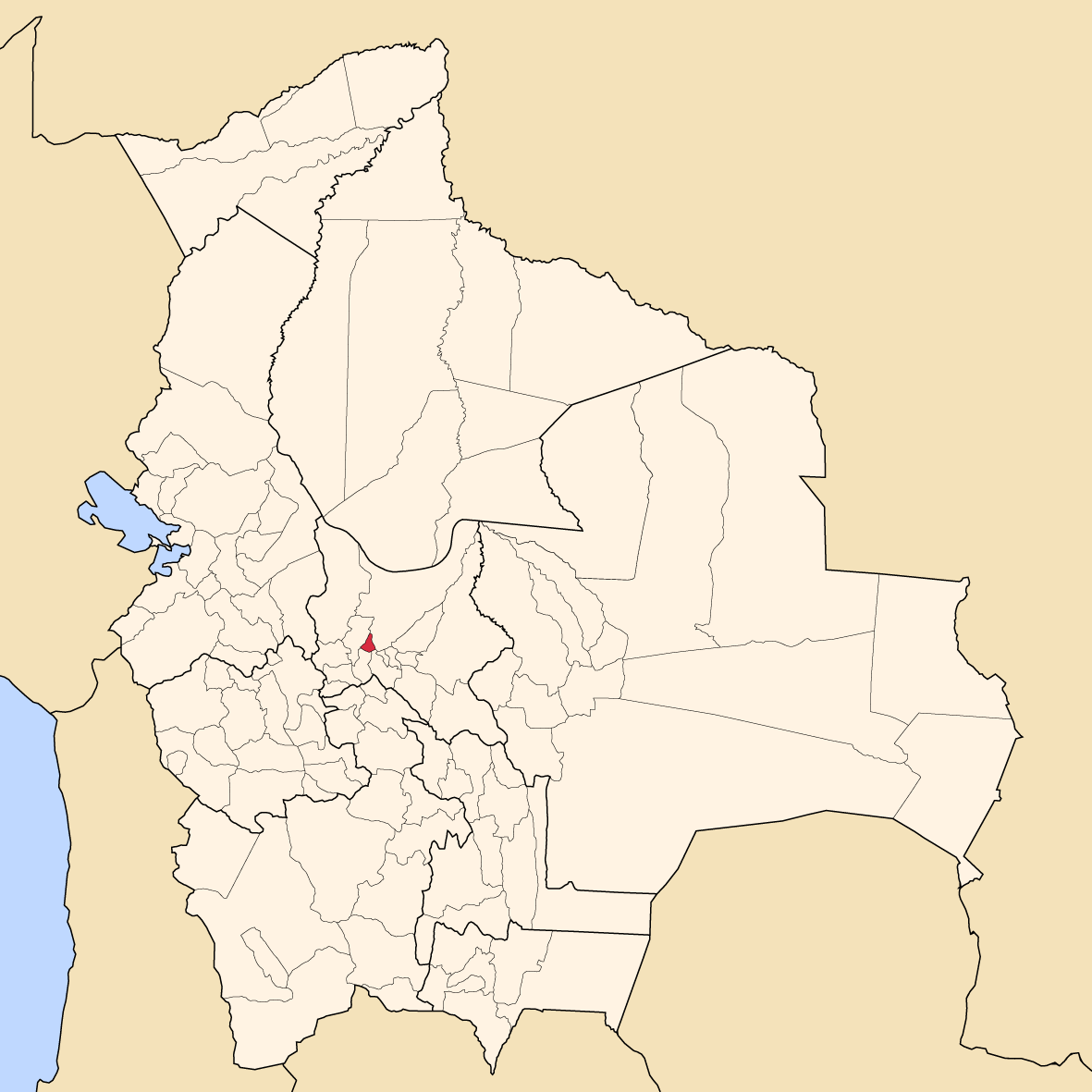 Map of Bolivia showing Cercado province